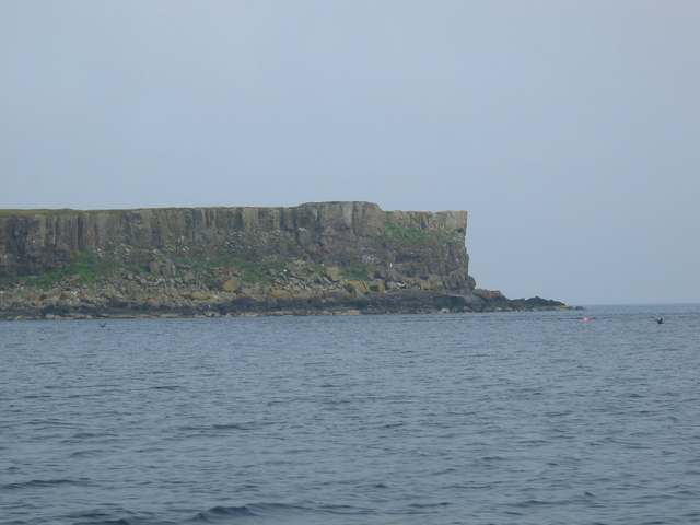 Sron Urraidh. The southern tip of Fladda, in the Treshnish Isles.